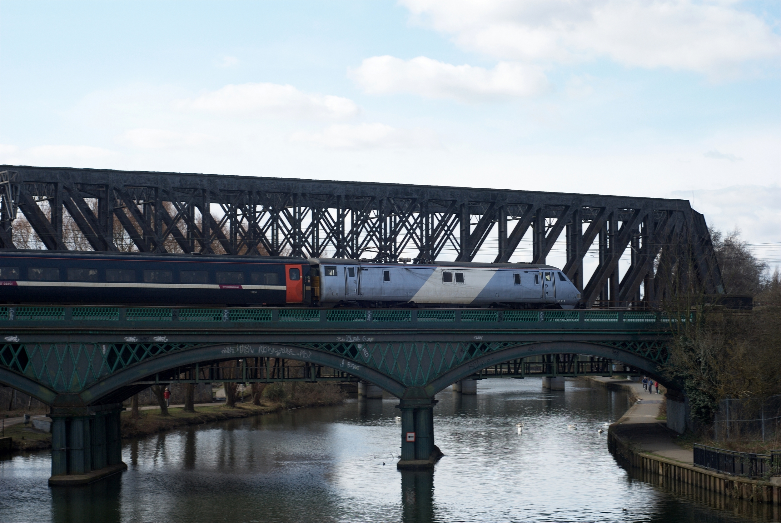 Historic cast iron railway bridge built in 1850, near Peterborough railway station